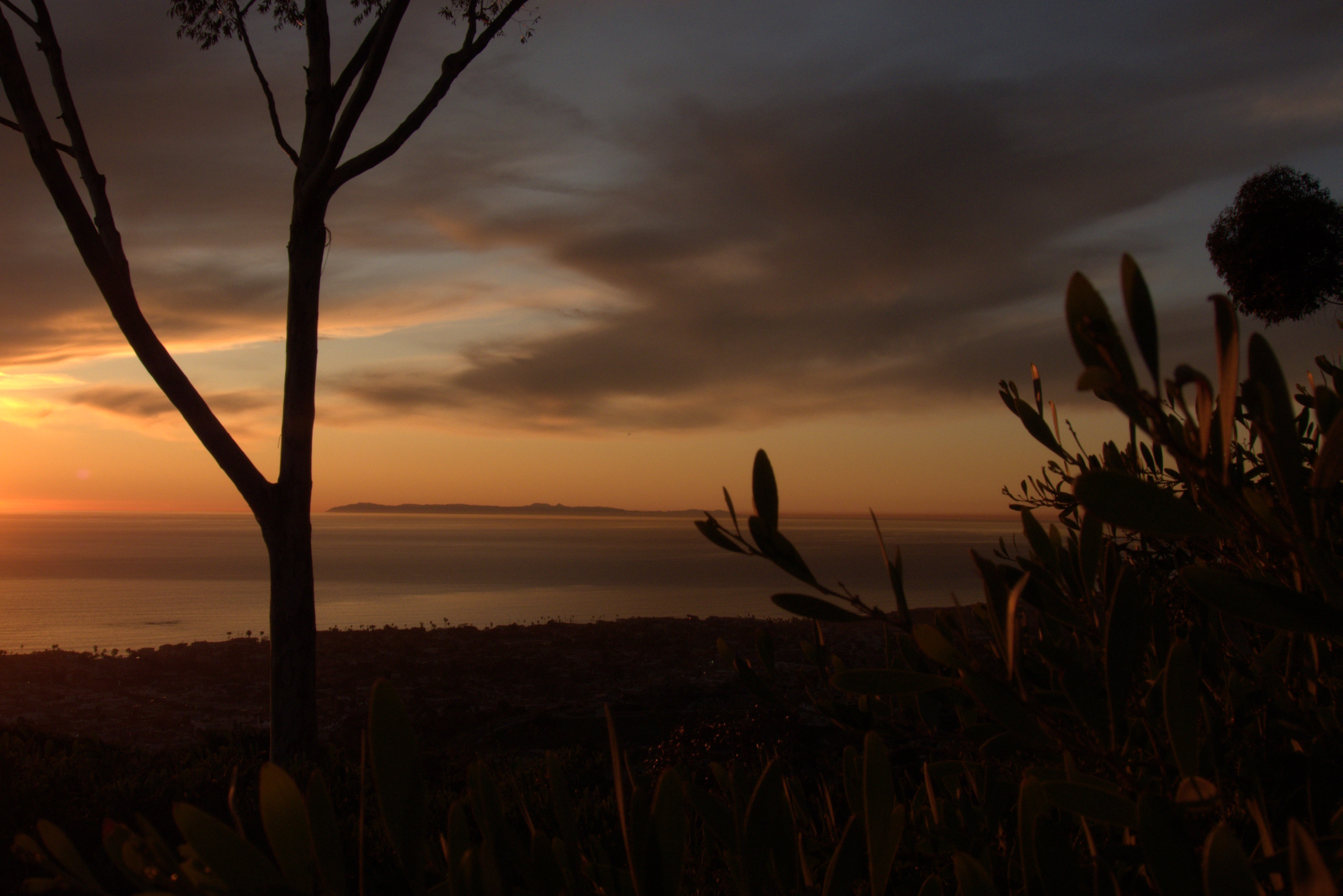 Sunset from the hills of San Clemente, looking at on a clear night towards Santa Catalina Island.